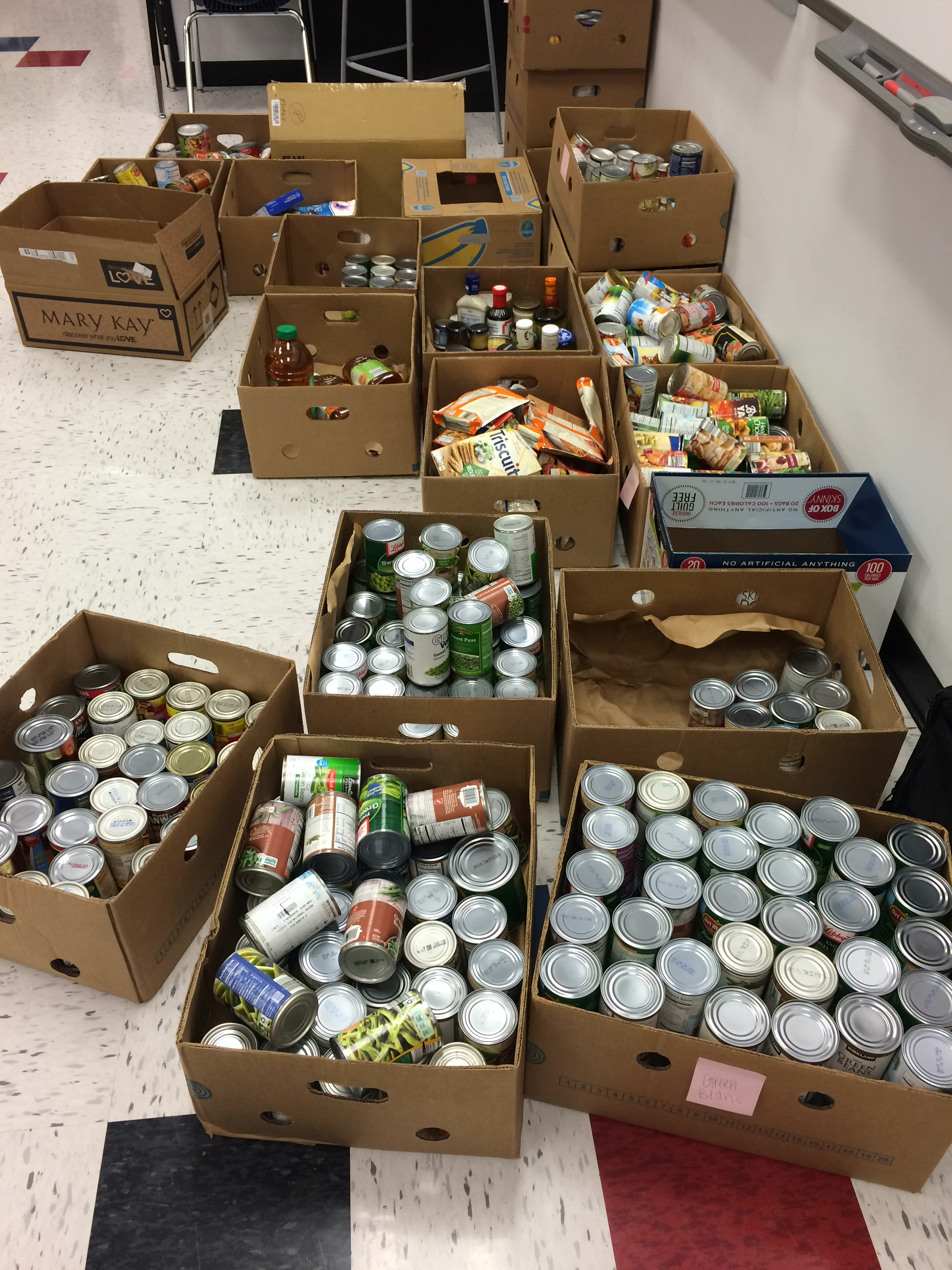 Start of the food drive.